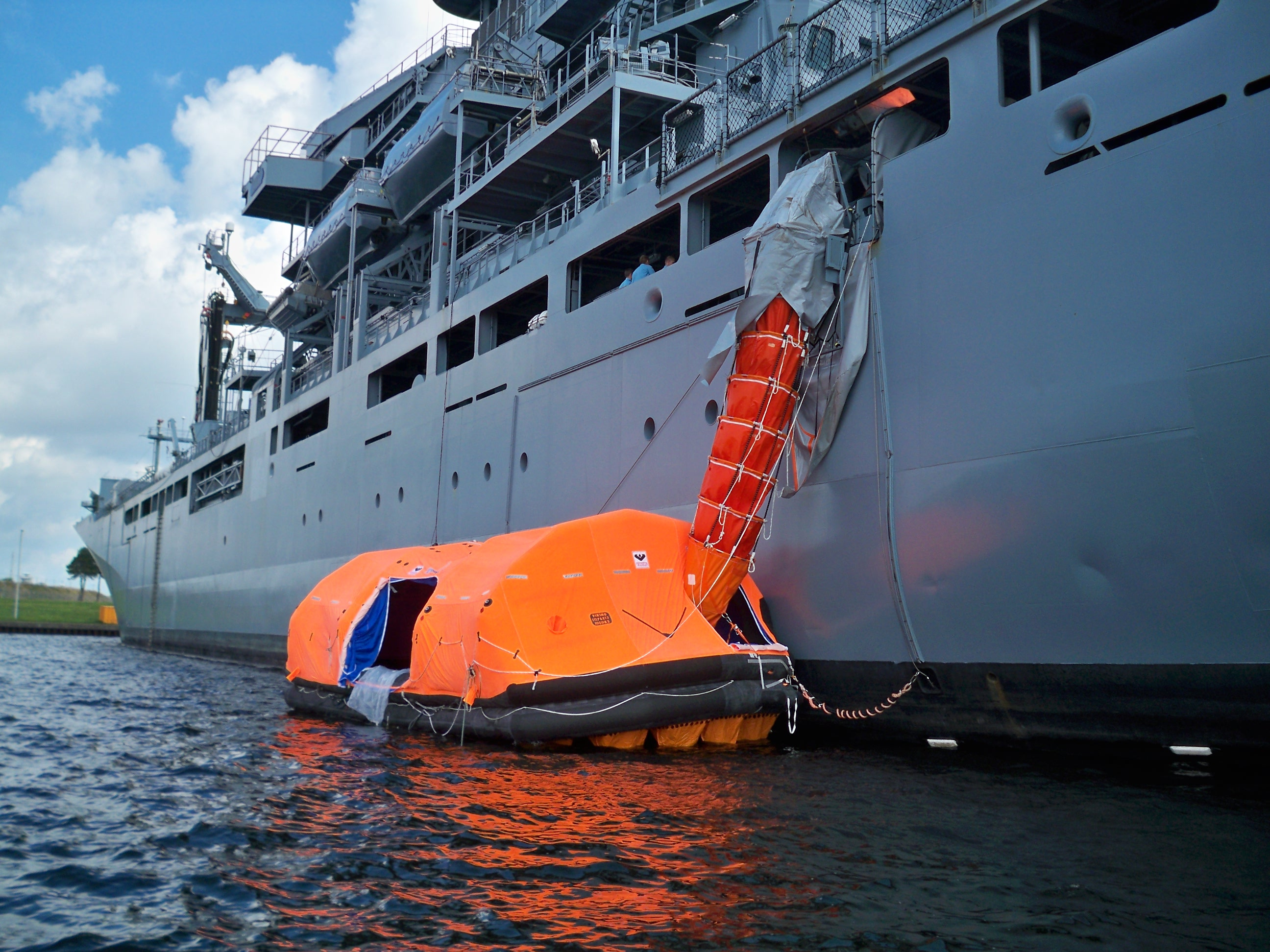 Activated marine evacuation system (MES) of German combat store ship Frankfurt am Main